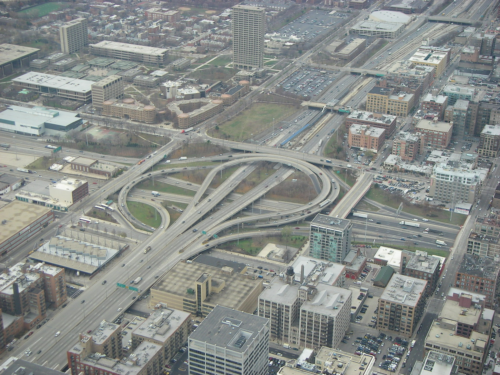 Spaghetti Bowl Interchange in Chicago viewed from the top deck of the Willis Tower (102nd floor)